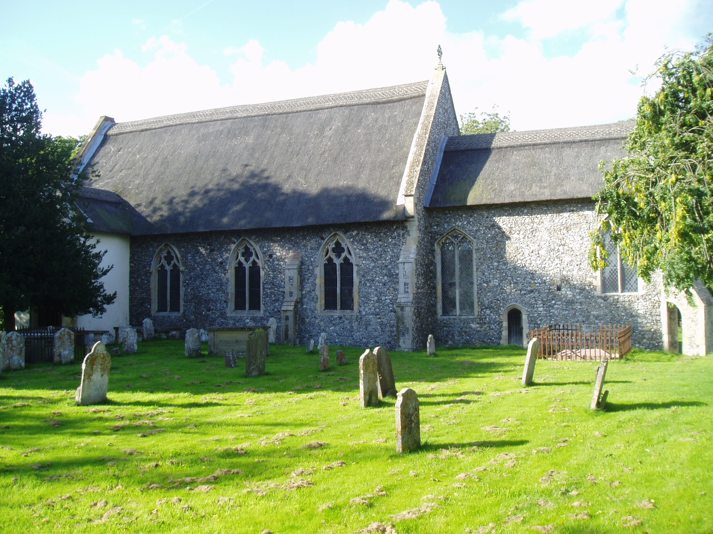 Template:Thurgarton Church in Norfolk, England